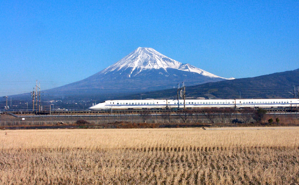 Mount Fuji and Shinkansen bullet train.